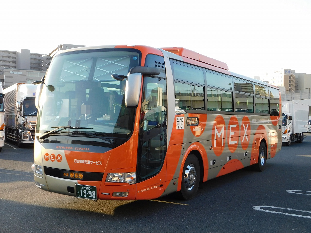 Hitachi Dentetsu traffic service Mitsubishi Fuso Aero Ace